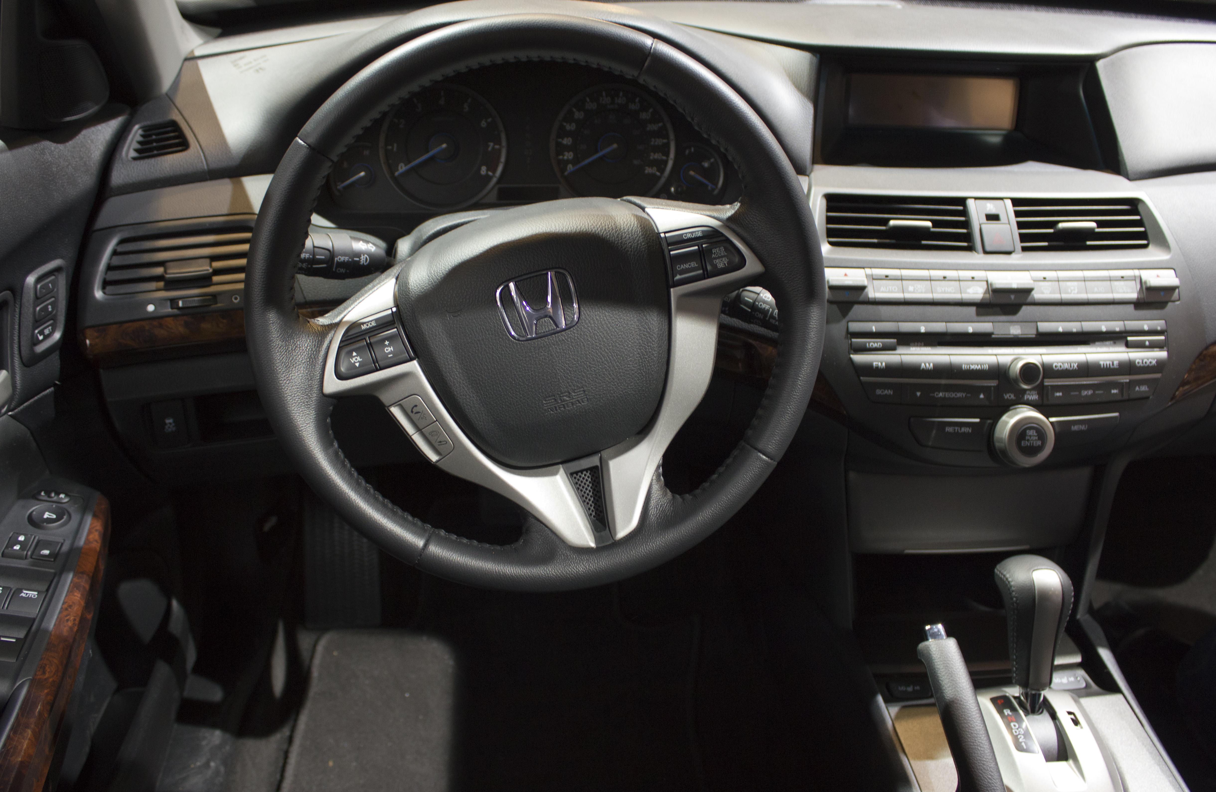 Taken at the 2011 Canadian International Auto Show